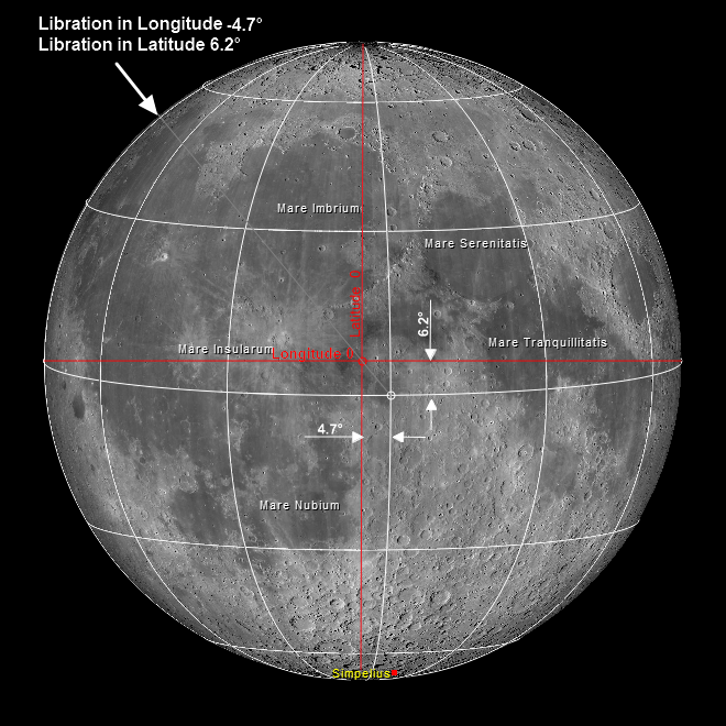 Moon Libration 2019 Sep 17 20:00 UTC